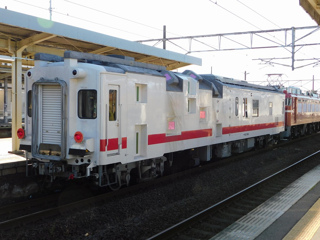 JR East Maya 50 5001